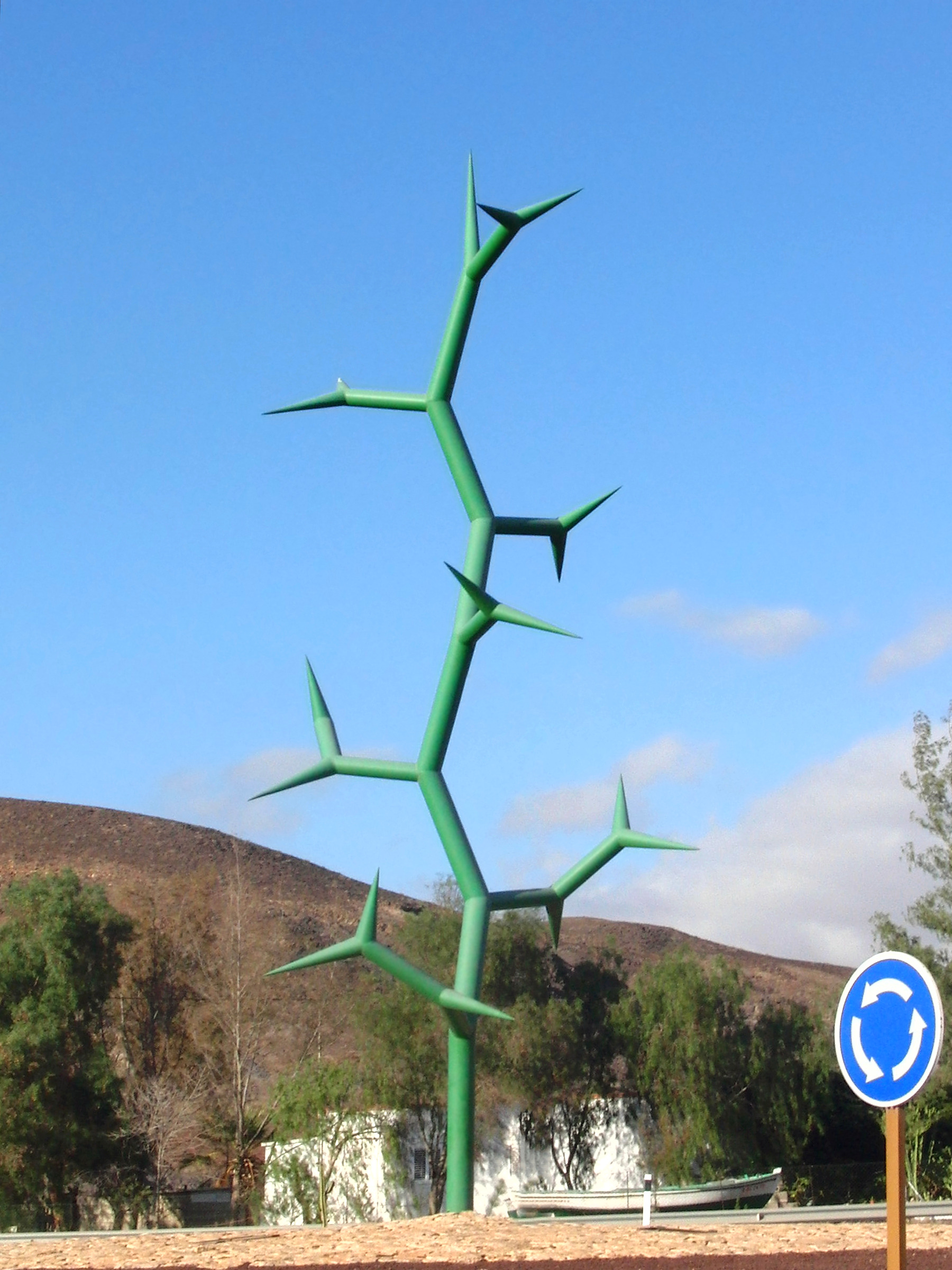 A monument depicting Aulaga morisca (spanish for Launaea arborescens) on a roundabout in Pájara, Fuerteventura (Canary Islands, Spain)